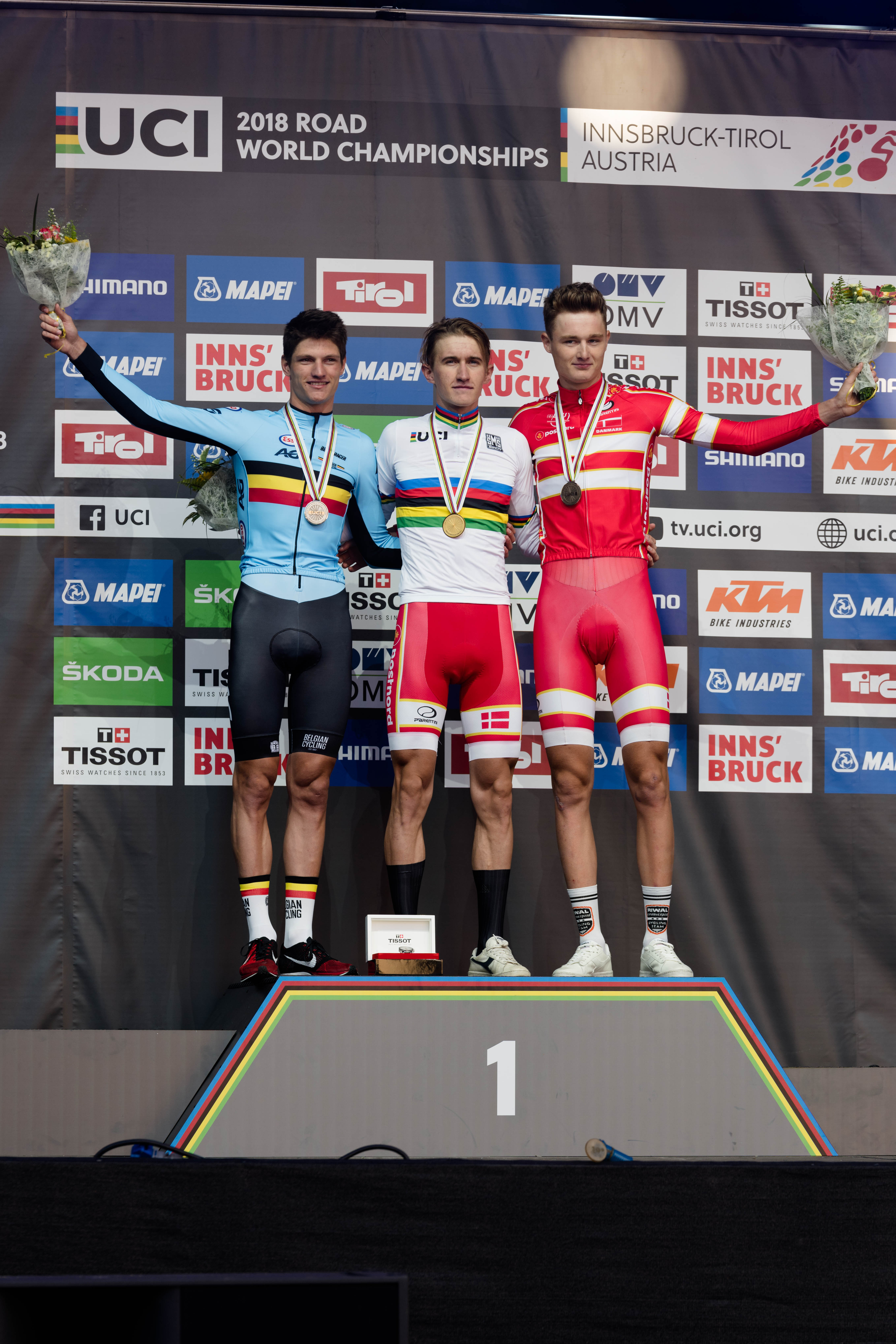 2018 UCI Road World Championships Innsbruck/Tirol Men under 23 Individual Time Trial. Picture shows: Award Ceremony Men under 23 Individual Time Trial with Brent van Moer (BEL), Mikkel Bjreg (DEN) and Mathias Norsgaard Jorgensen (DEN)